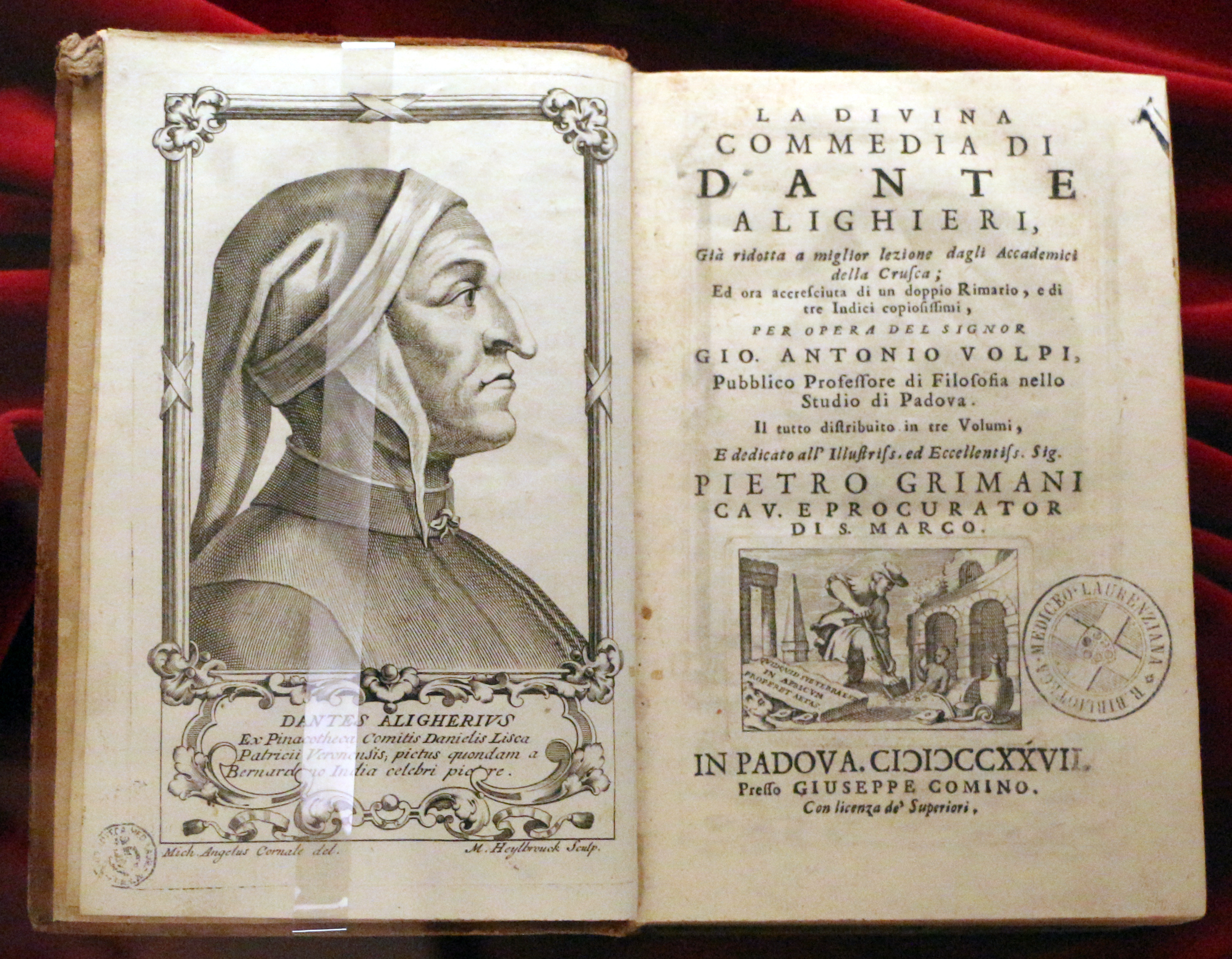 Collections of the Biblioteca Medicea Laurenziana